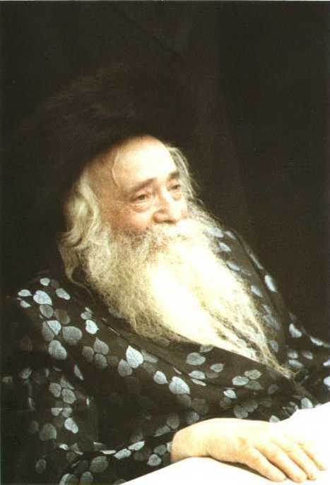 Rabbi YY Halberstam, The Sanz-Klausenberger Rebbe, Founder of the Laniado Hospital.